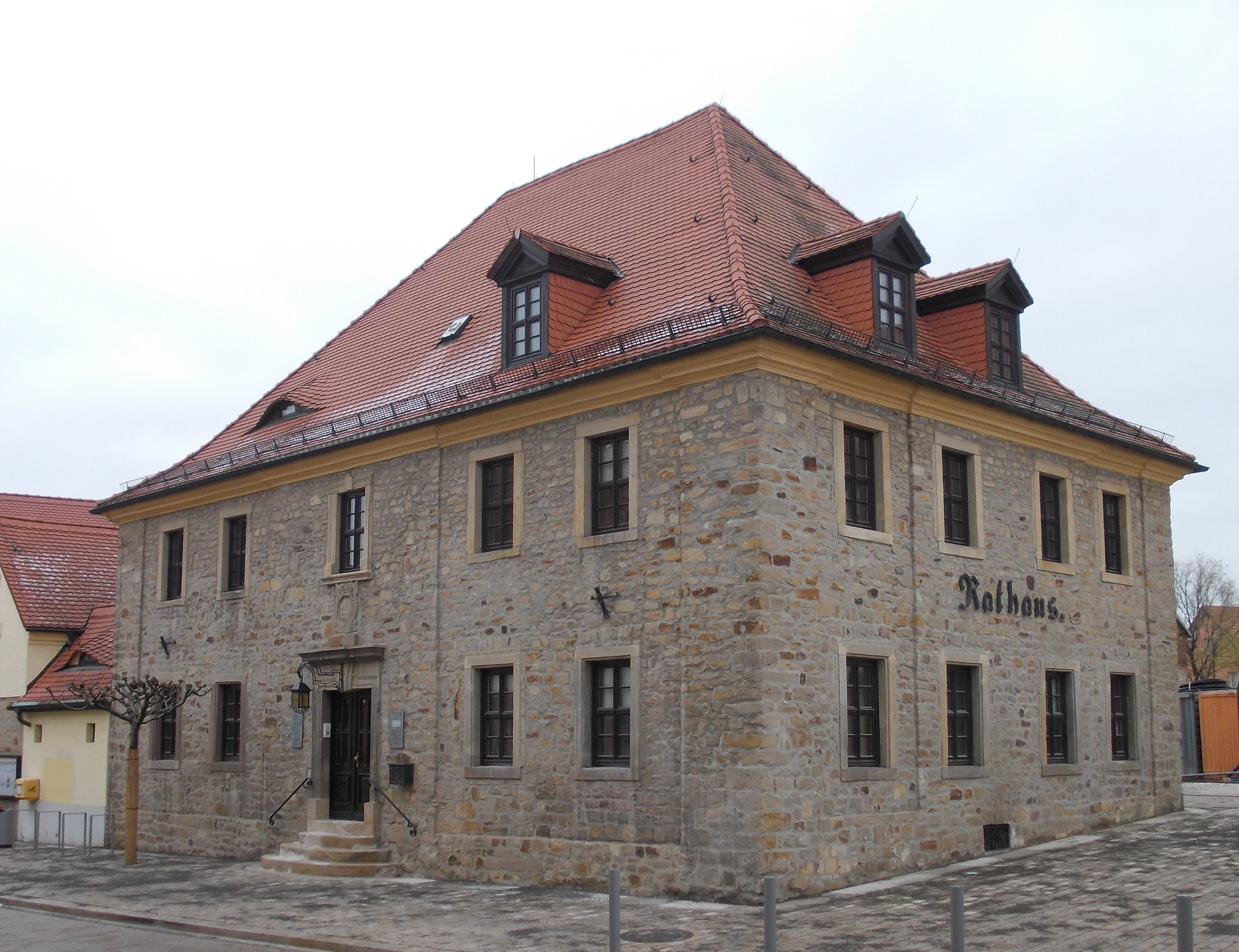 Town hall in Bad Lauchstädt (Saalekreis, Saxony-Anhalt)